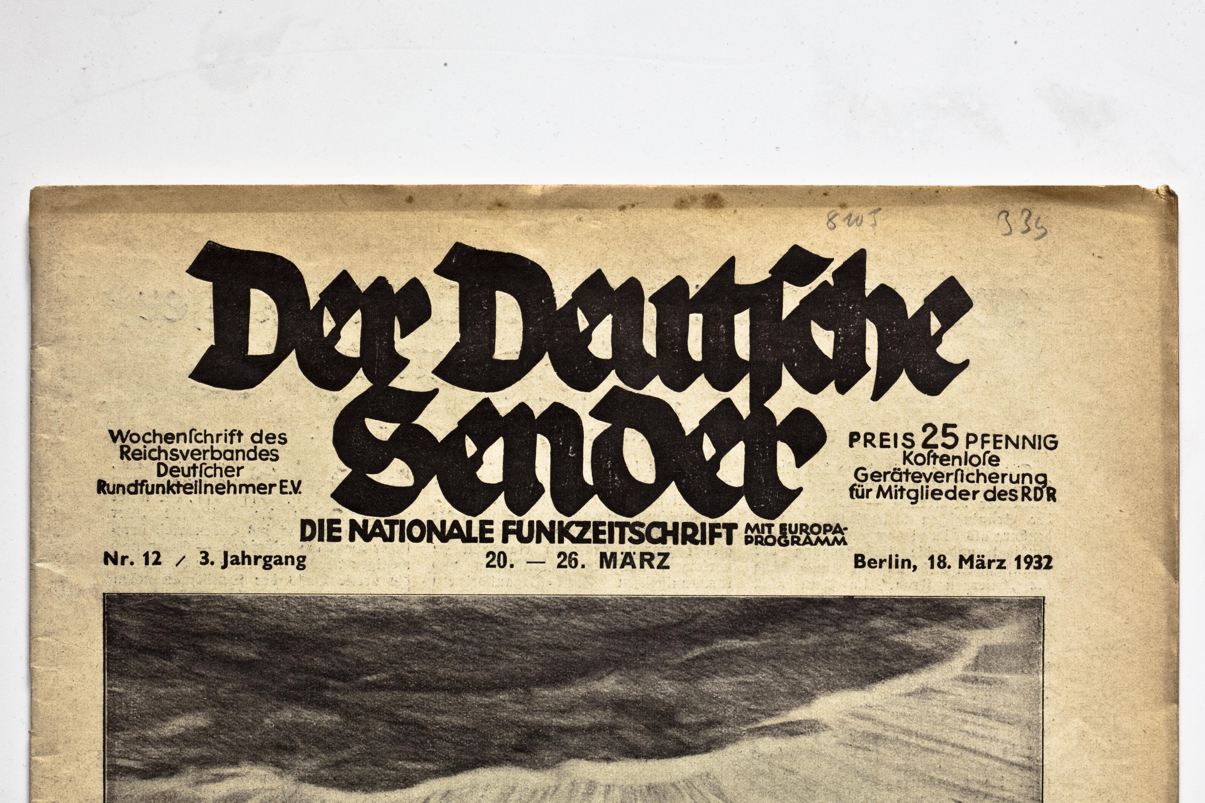 Photograph of the top section of the cover page of "Der Deutsche Sender", a German radio publication run partly be the Nazi Party